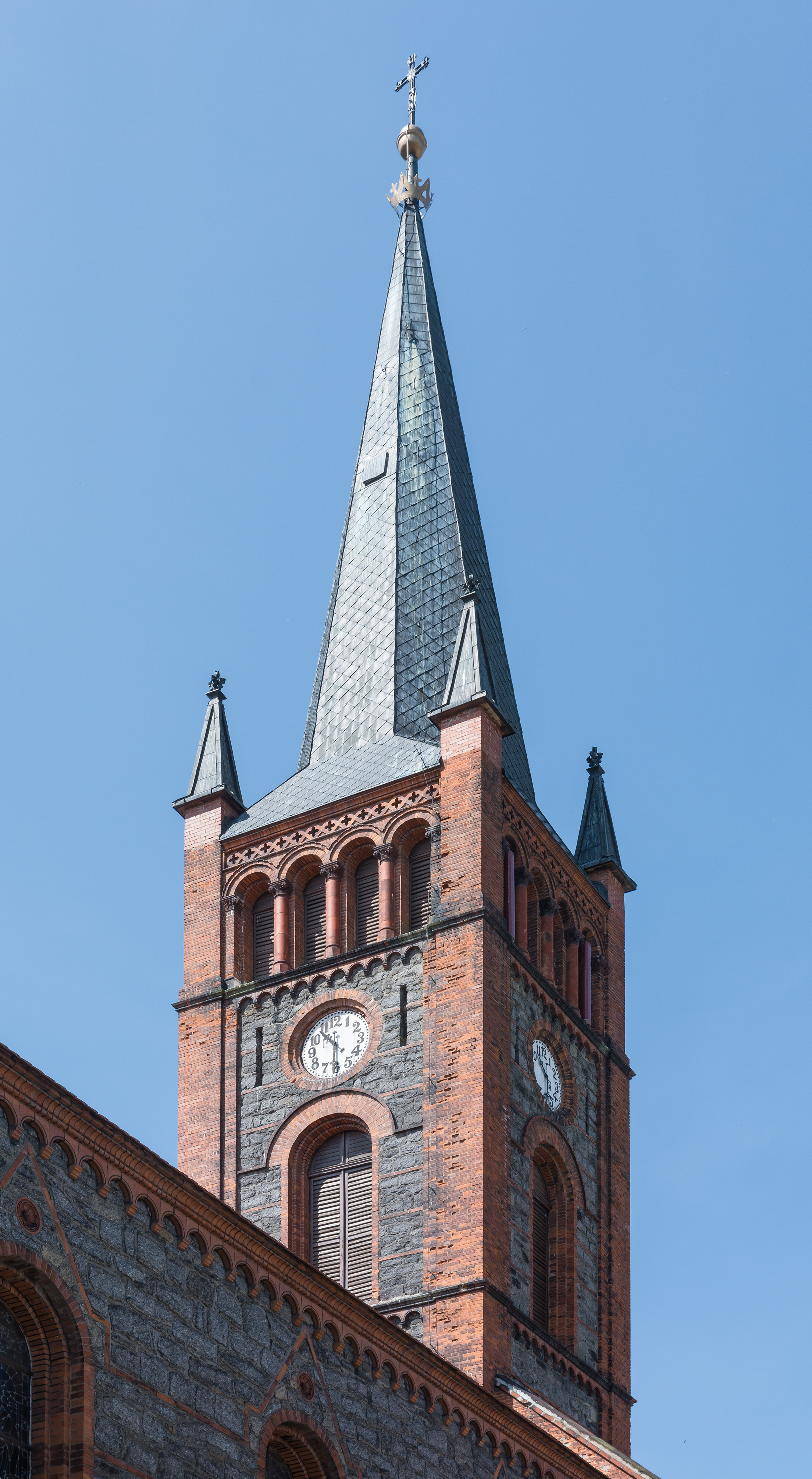 Church of Immaculate Conception Of Blessed Mary in Niemcza